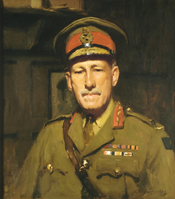 Caption:1st Australian Imperial Force, 4th Brigade (earlier also 3rd Brigade and 8th Battalion); Brigadier General Charles Henry Brand, CB, CMG, DSO, MID (x7), Commanding 4 Bde AIF; Western Front,,,, 3rd, Hindenburg Line